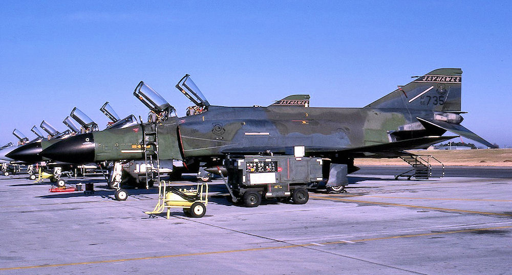 184th Tactical Fighter Group - McDonnell F-4D-31-MC Phantom 66-7735 Aircraft retired to AMARC as FP0100 Apr 21, 1988